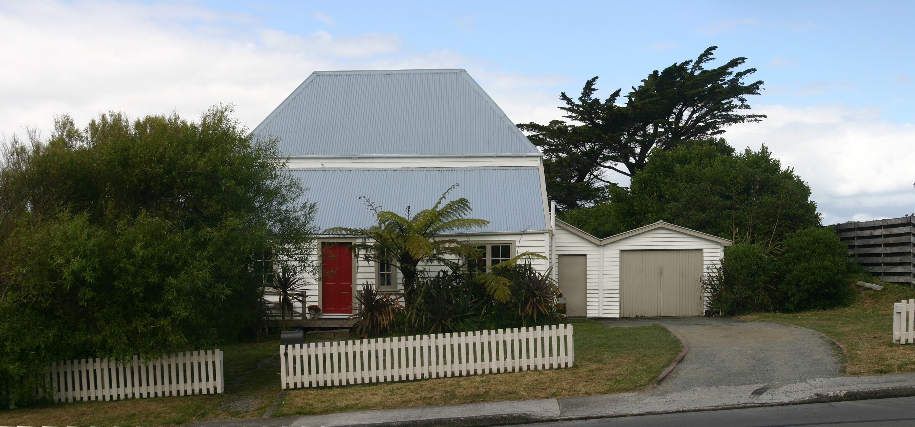 Daisy hill farmhouse. Johnsonville, Wellington, New Zealand. Panorama of two images stitched together with Hugin